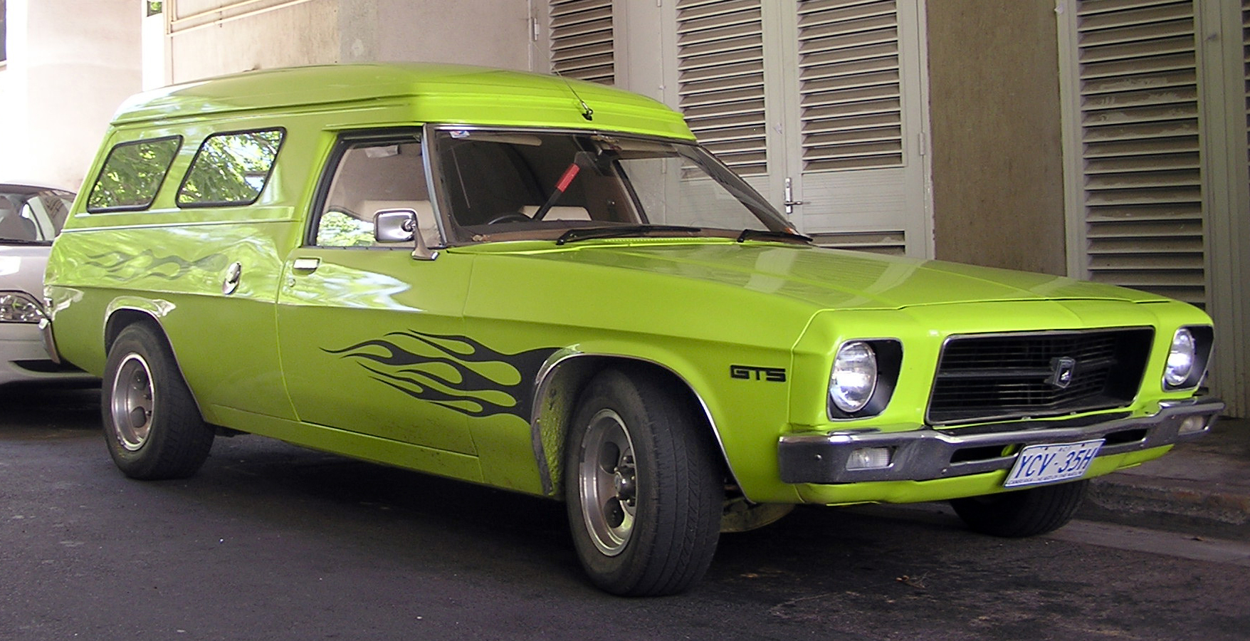 1974 Holden HQ panel van, photographed in Australia.